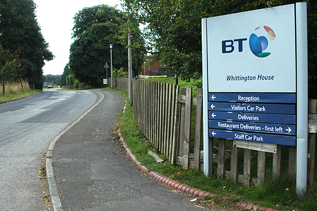 BT regional headquarters in Whittington, Shropshire, England